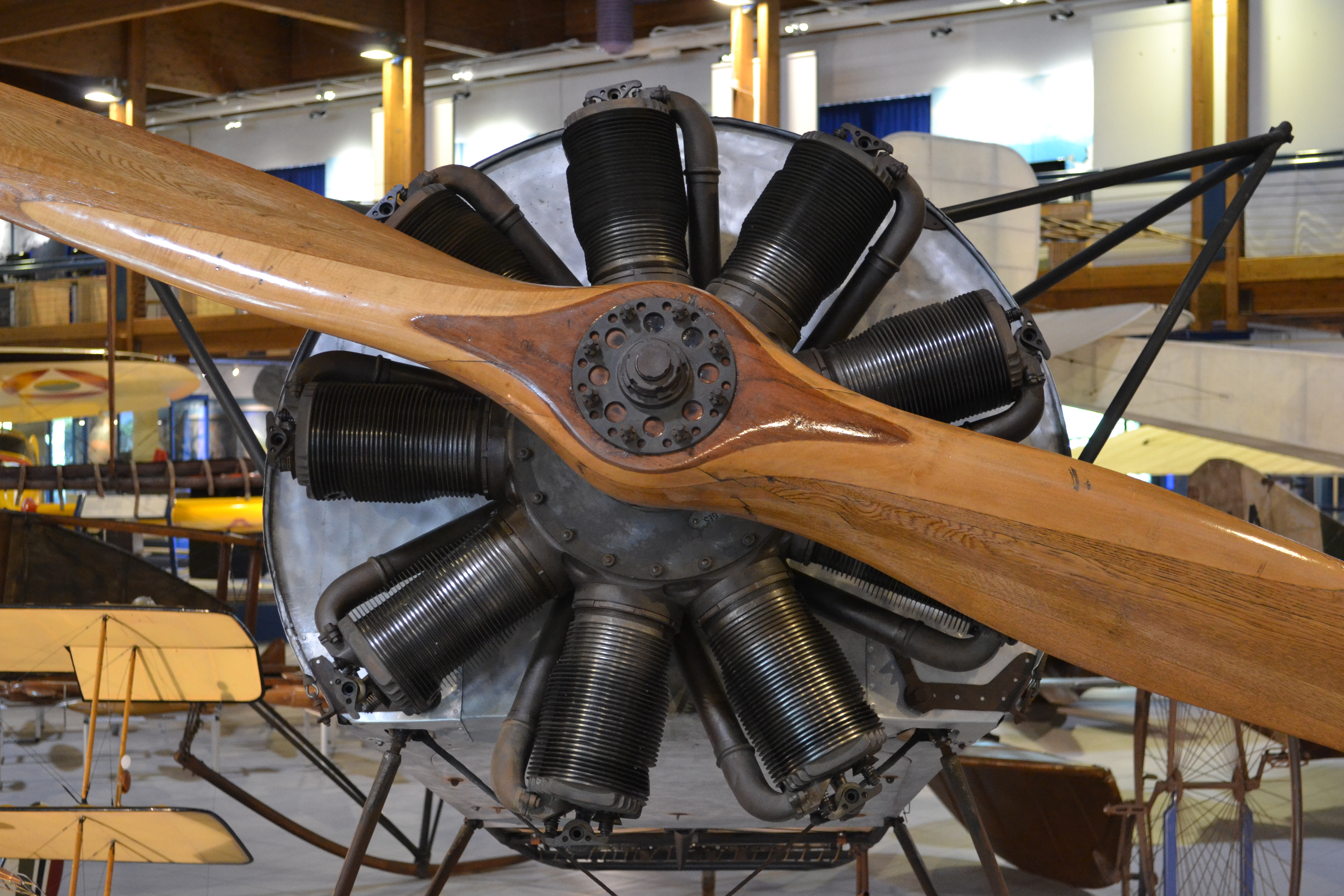 Front view of the 110 hp Oberursel Ur.II rotary engine fitted on the Fokker D.VIII on display at the Gianni Caproni Museum of Aeronautics.